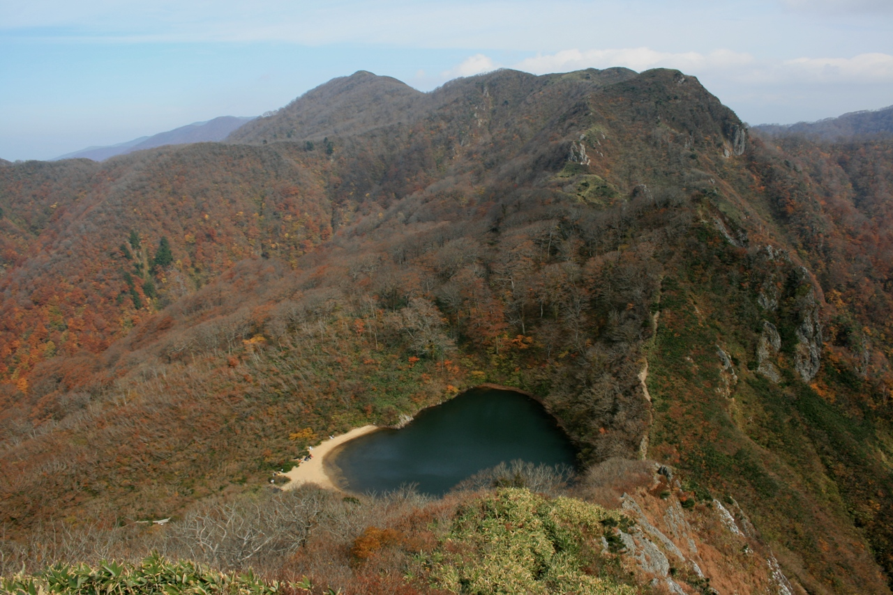 Yasyagaike and Mount Sanshu of Ryōhaku Mountains, Japan.